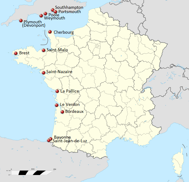 Ports utilised during the evacuation of British and Allied forces, 15–25 June 1940, under the codename Operation Ariel.